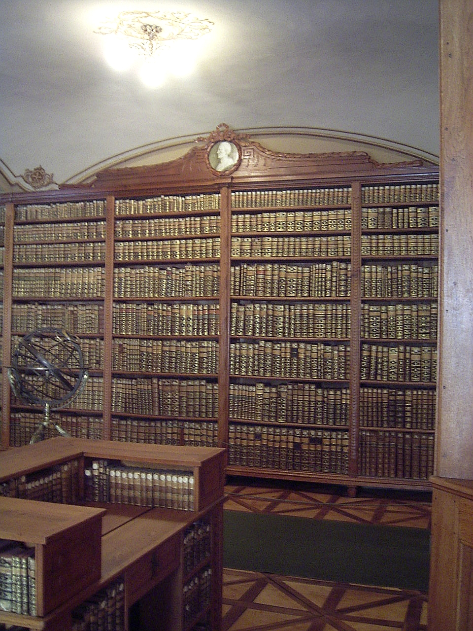 Kalocsa episcopal library, Denis Barthel, published under GFDL